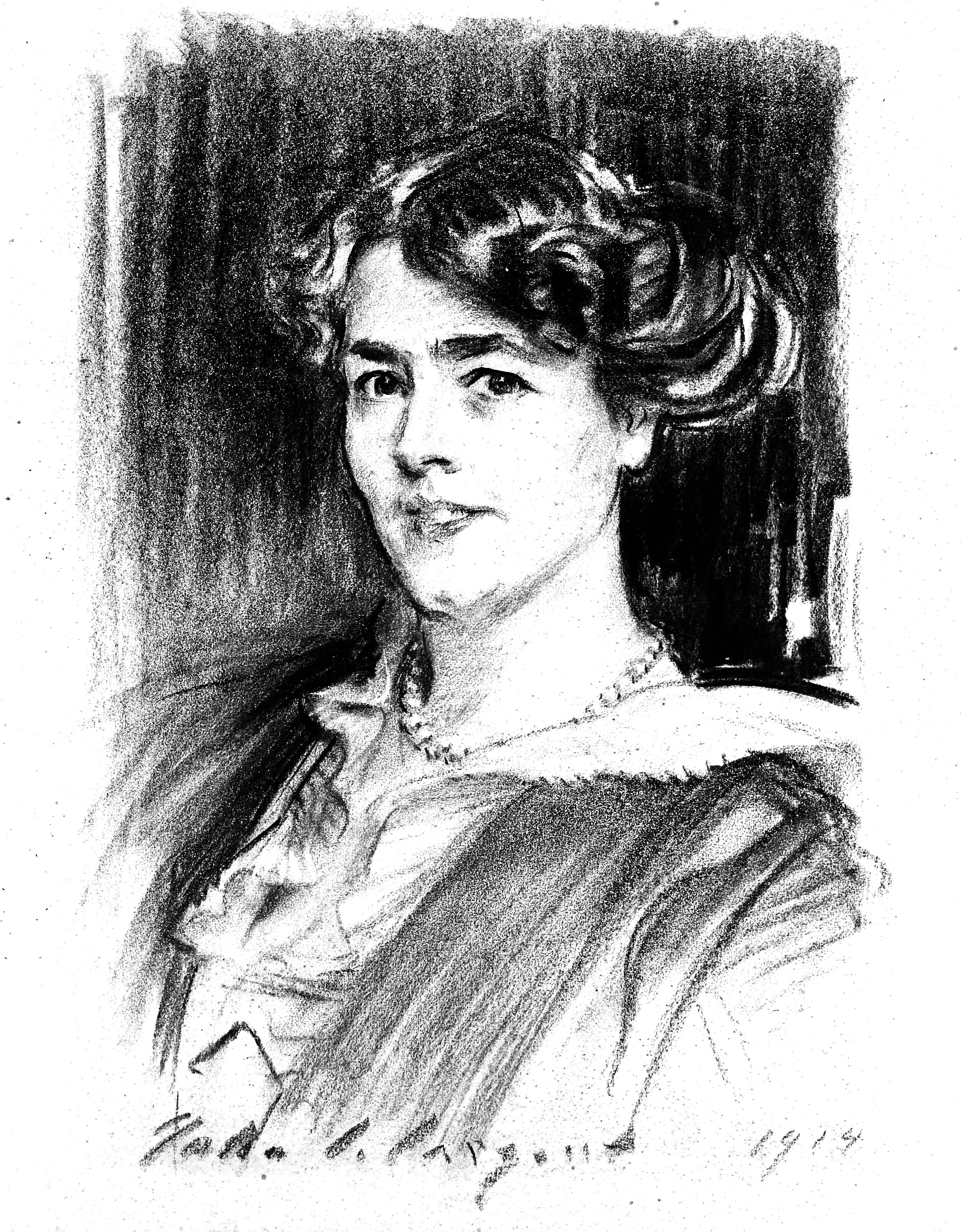 Portrait of Lady Michaelis - Chalk drawing